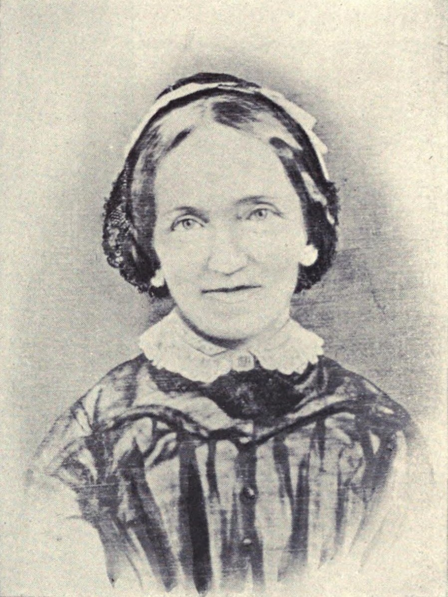 Mrs. Charlotte Fowler Baldwin (November 7, 1805 - October 2, 1873), wife of missionary to Dwight Baldwin.